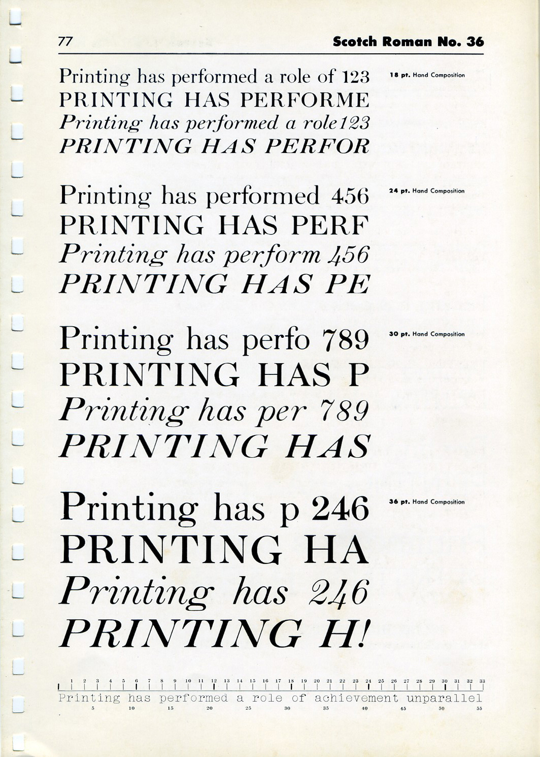 From Daily Type Specimen